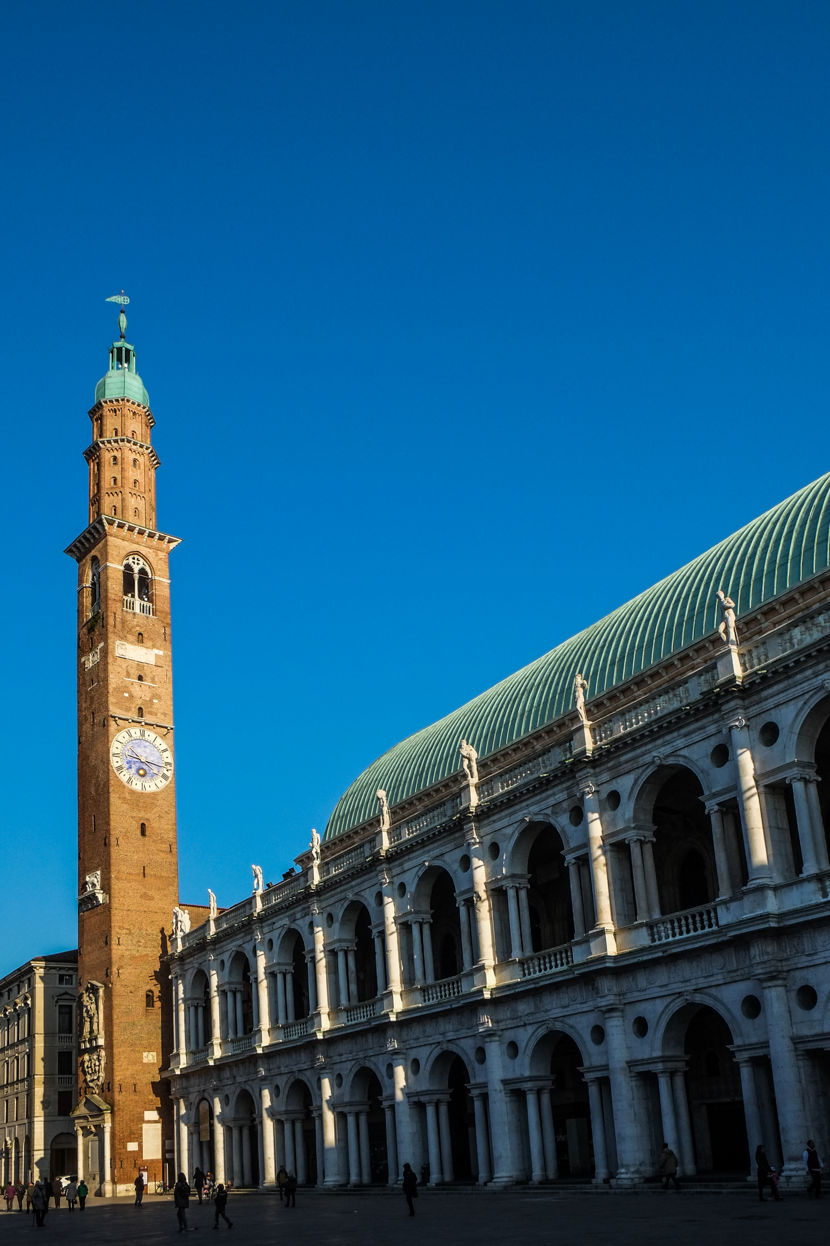 Basilica Palladiana in Vicenza